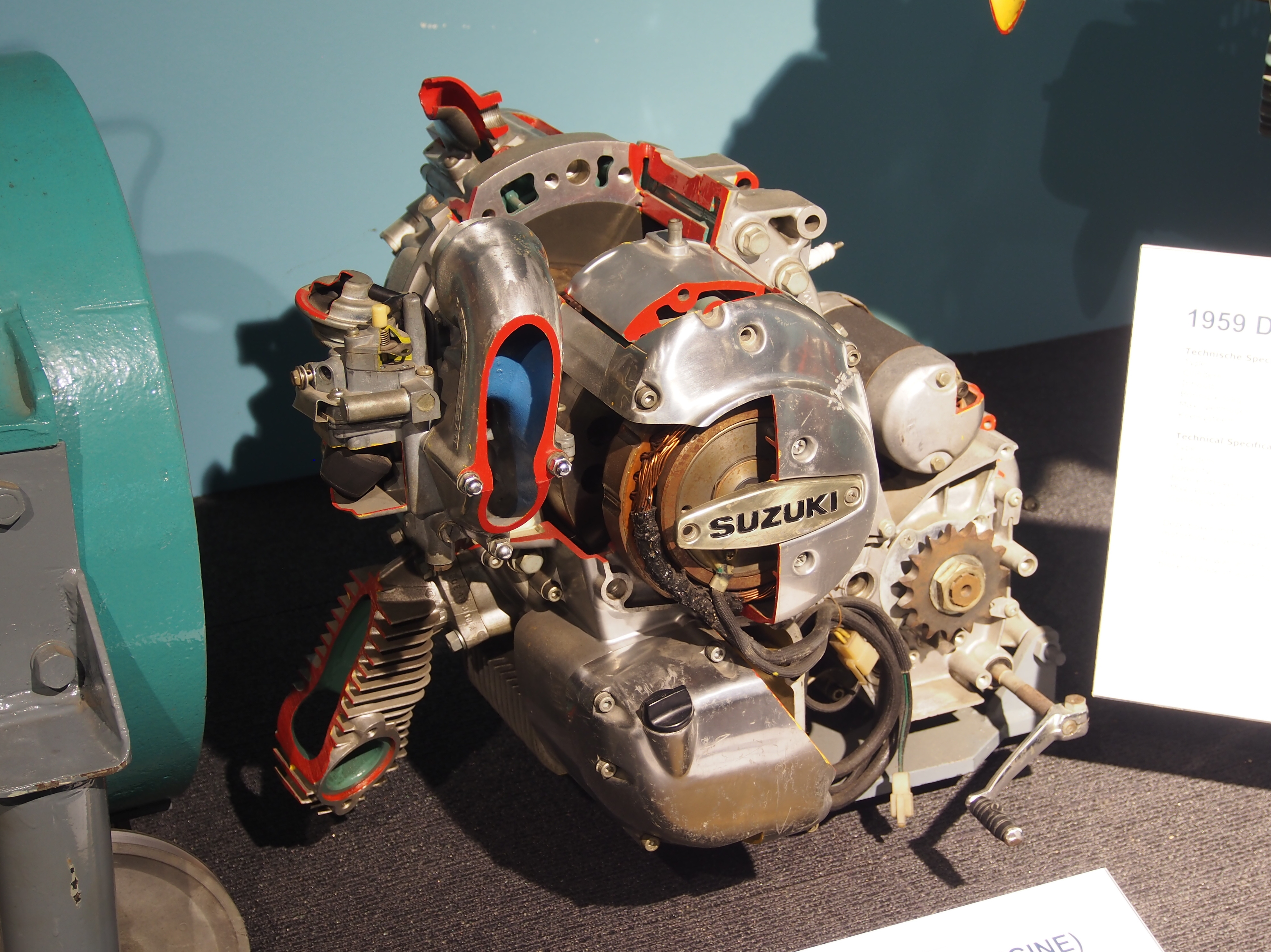 Photographed at the Louwman museum.